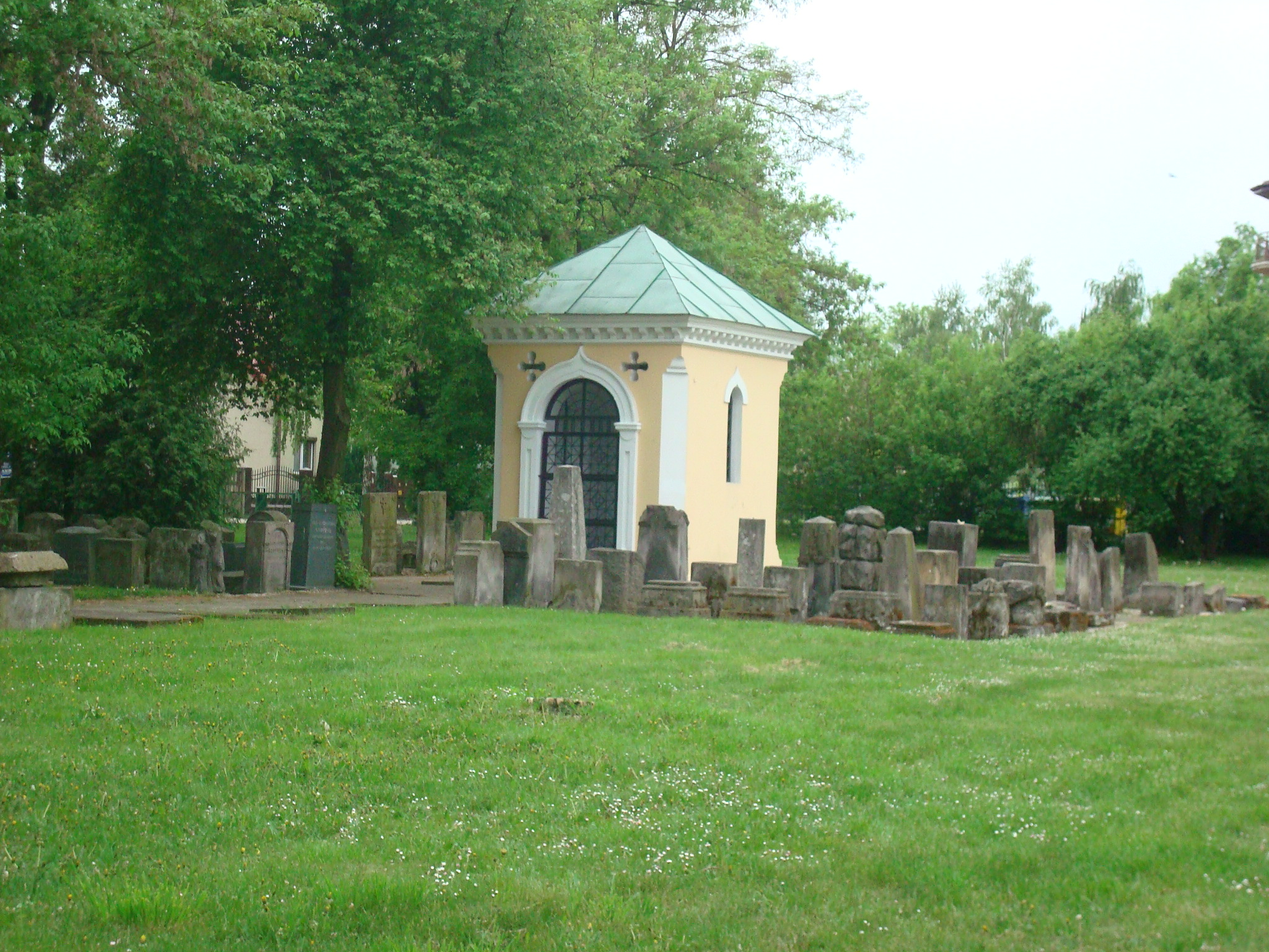 Lapiarium in Siedlce